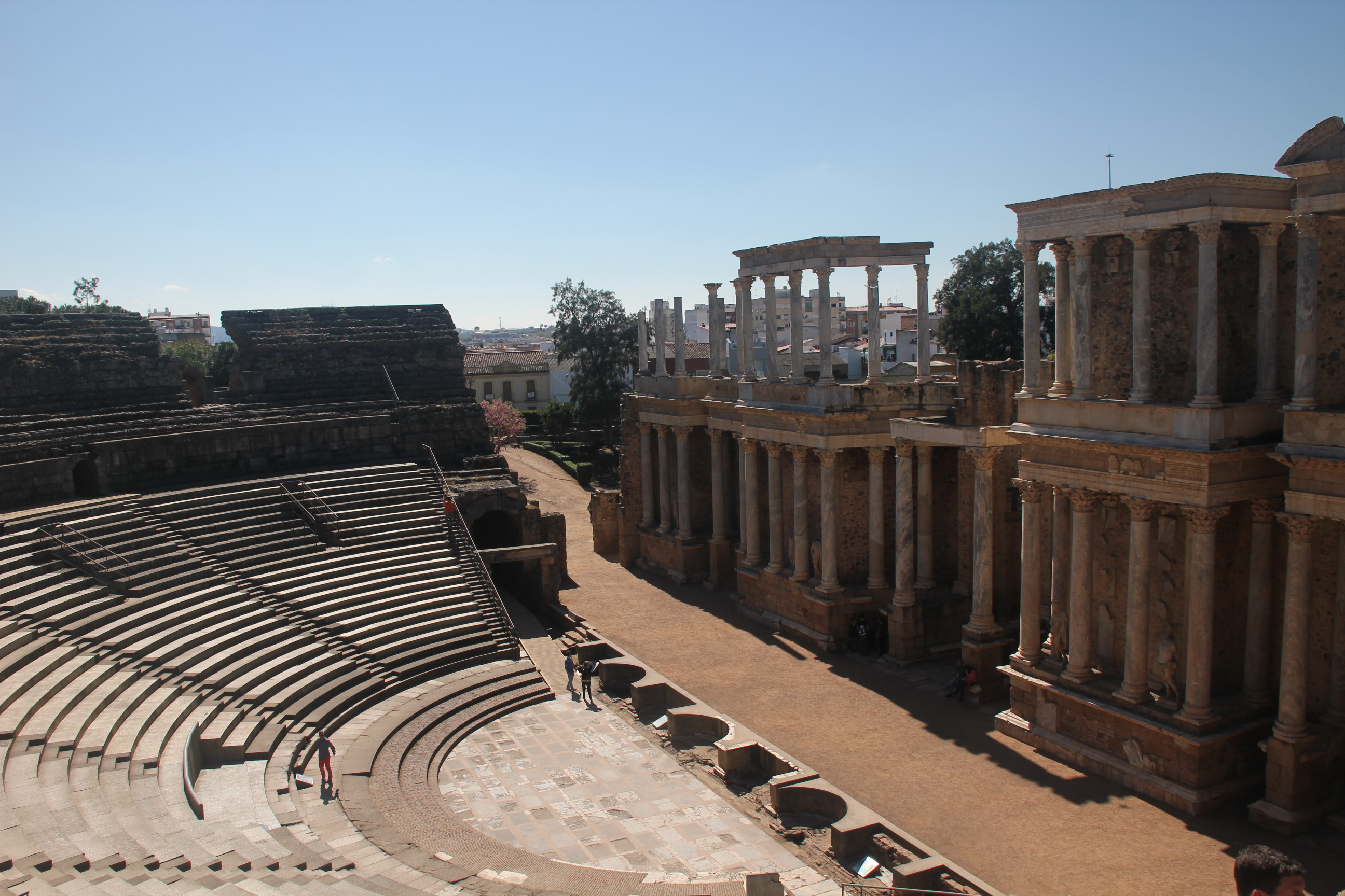 Roman Theatre in Mérida